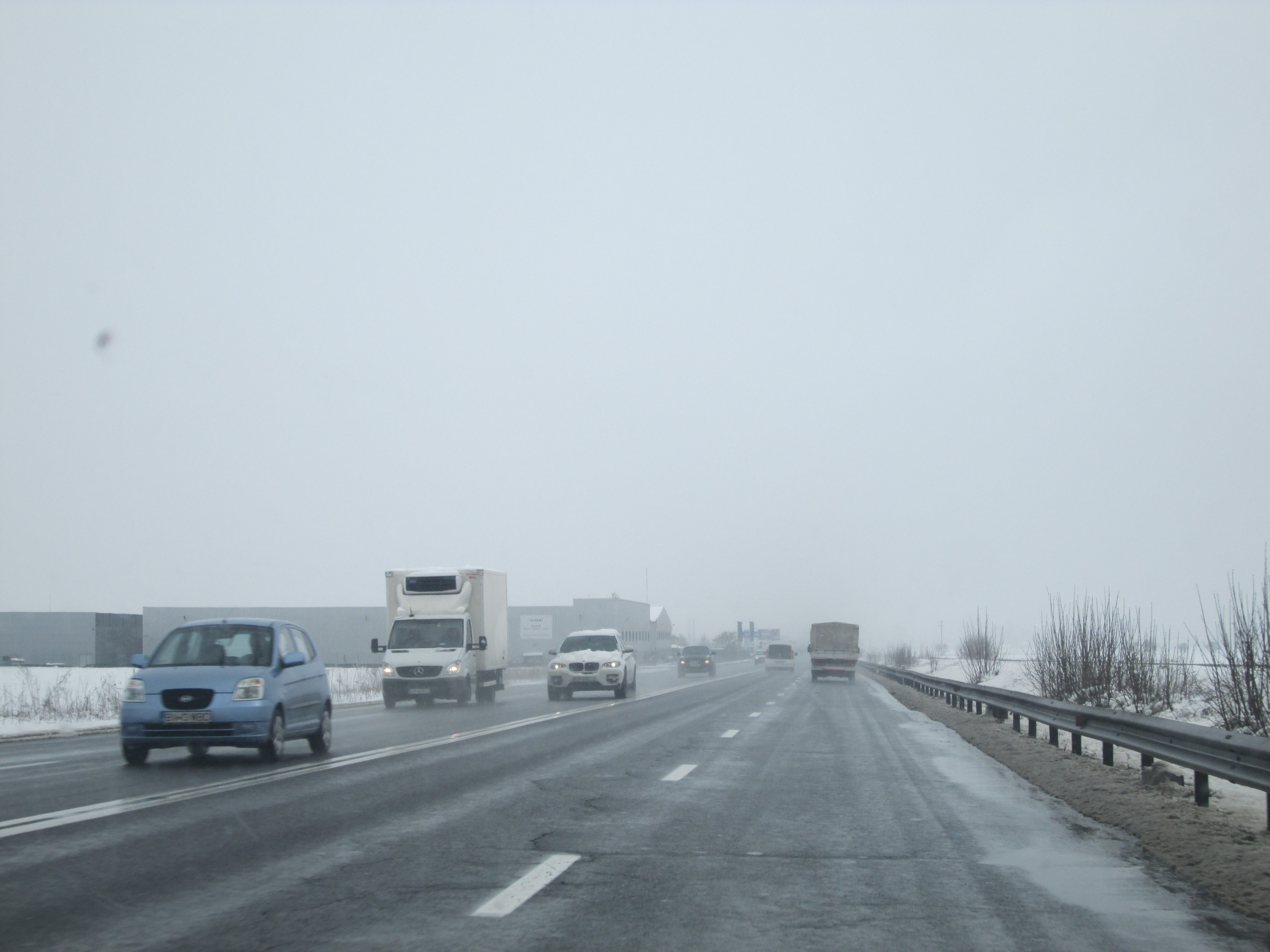 DN73 between Brasov and Rasnov